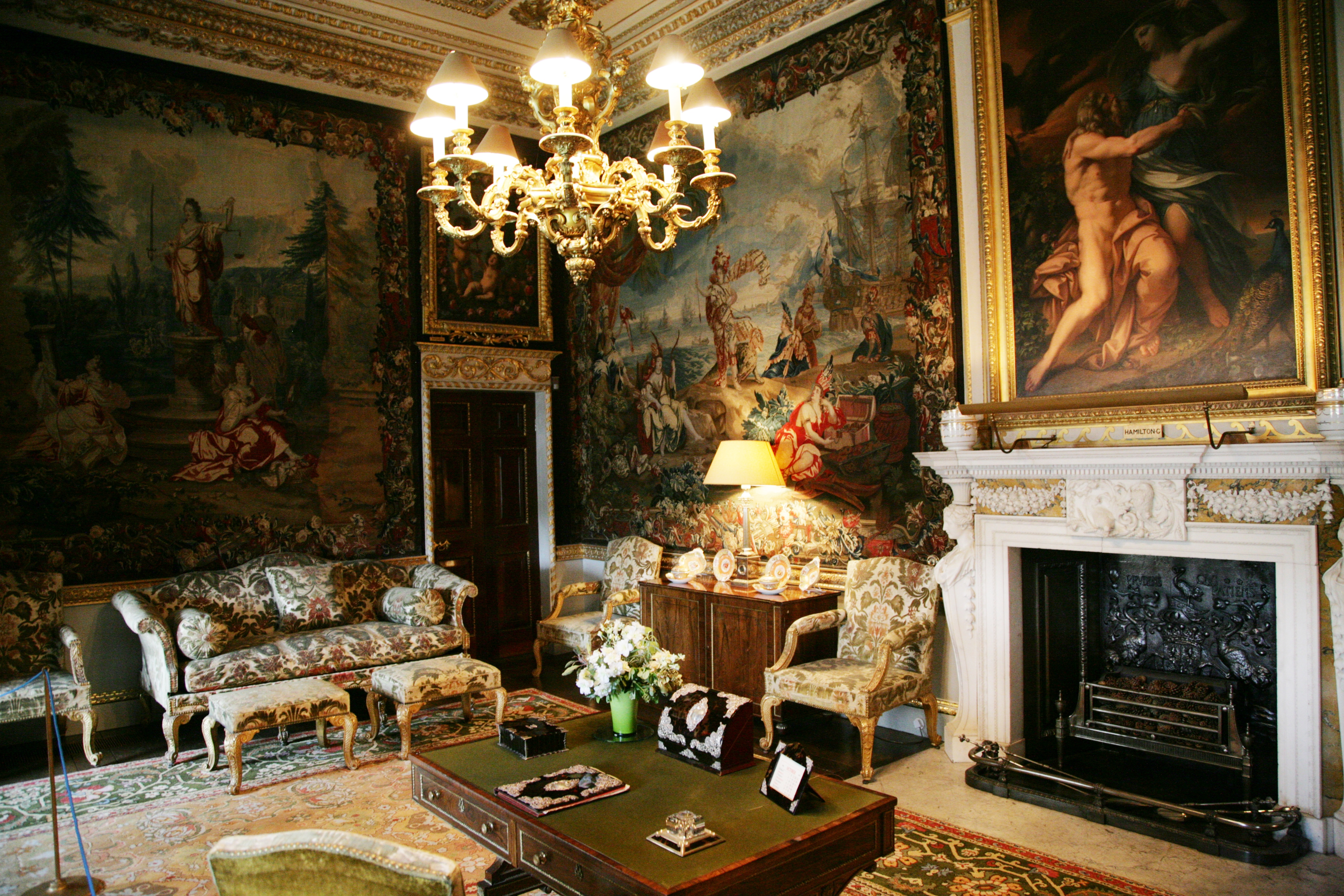 Holkham Hall in Norfolk. The Green State Bedroom